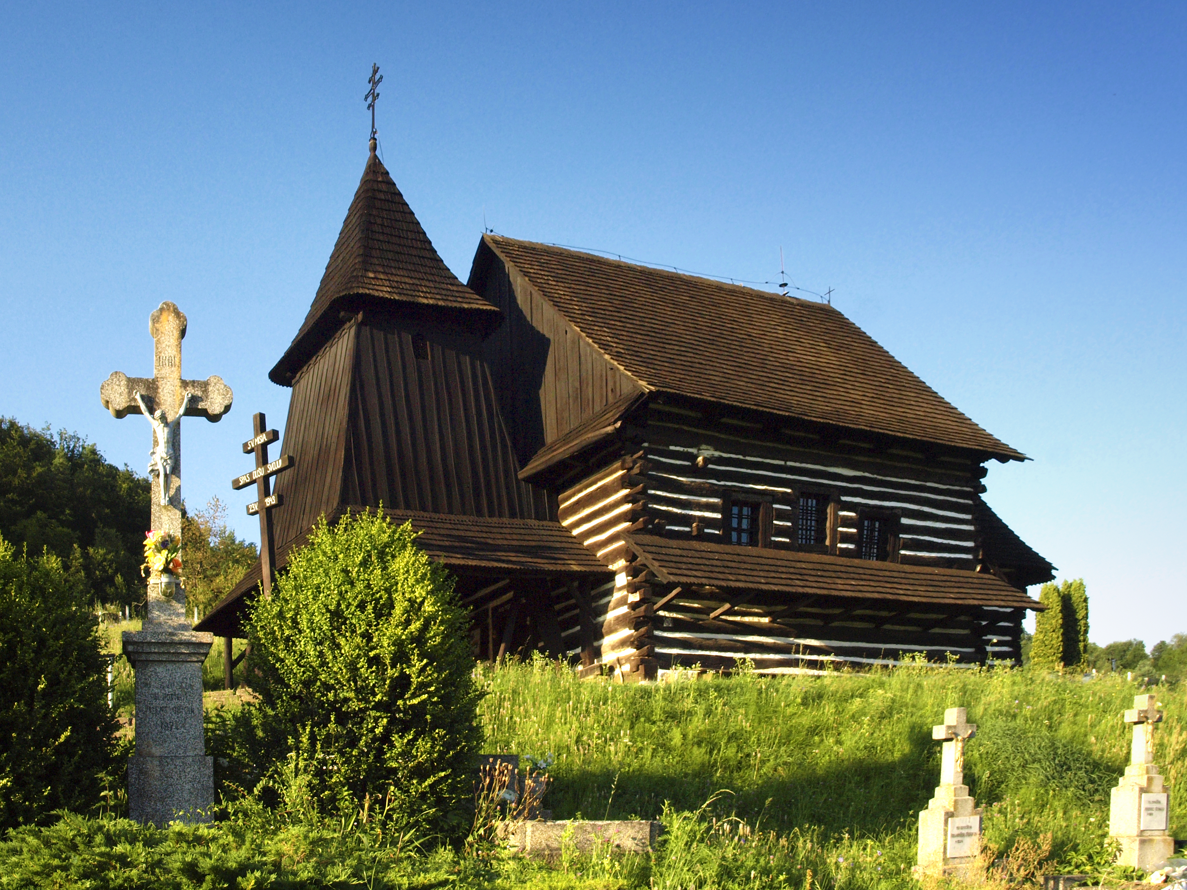 Brežany (Presovsky - Slovakia) - St. Lucas Church, wooden church (1727) This medium shows the protected monument with the number 707-272/0 in the Slovak Republic.